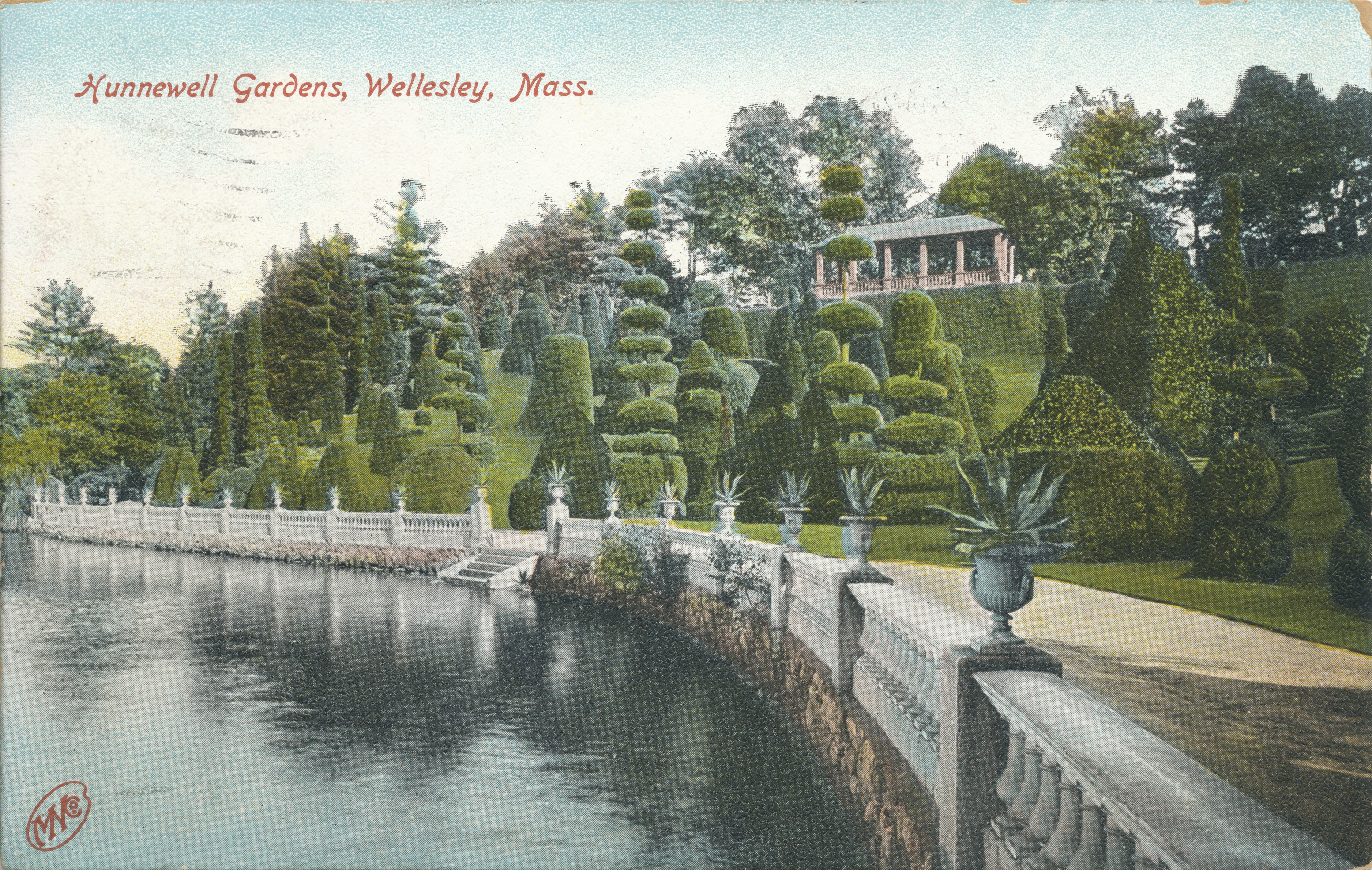 A postcard depicting the :en:Walter Hunnewell Arboretum]|Hunnewell Gardens on the shores of Lake Waban, opposite Wellesley College, Wellesley, MA.